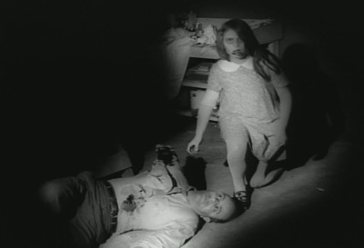 Night of the Living Dead screenshot -- a young zombie (Kyra Schon) and her victim (Karl Hardman).